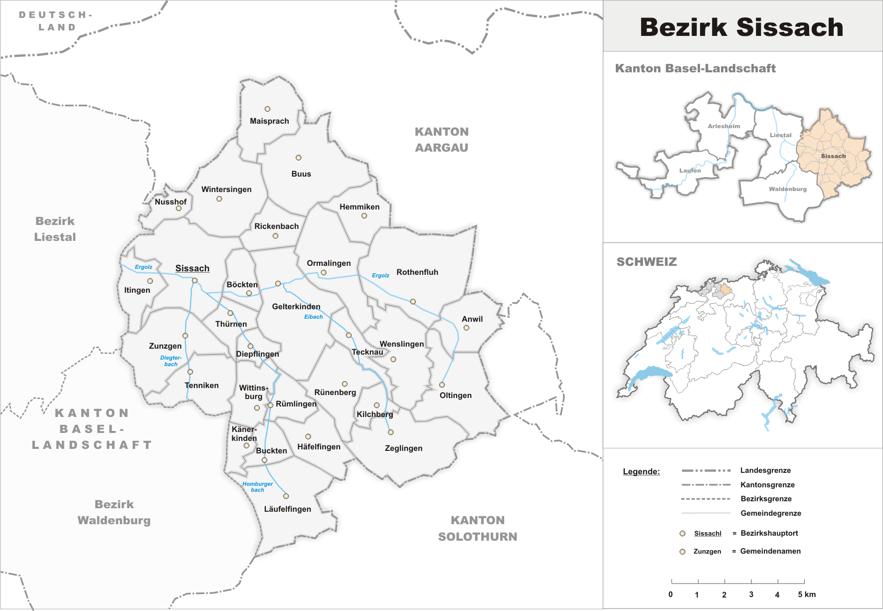 Municipalities in the district of Sissach